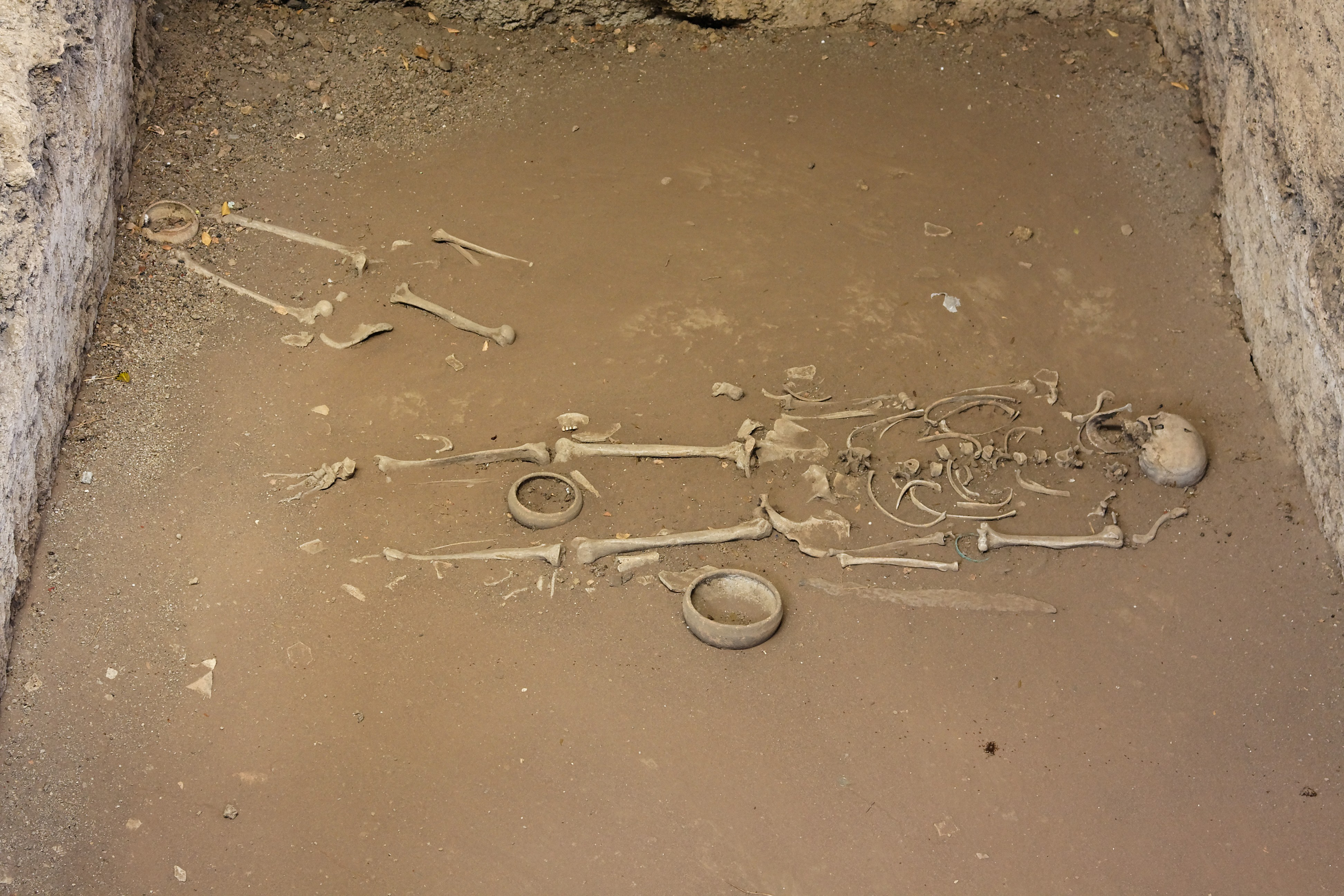 Si Thep Historical Park, Si Thep District, Phetchabun Province, Thailand. Prehistoric human remains